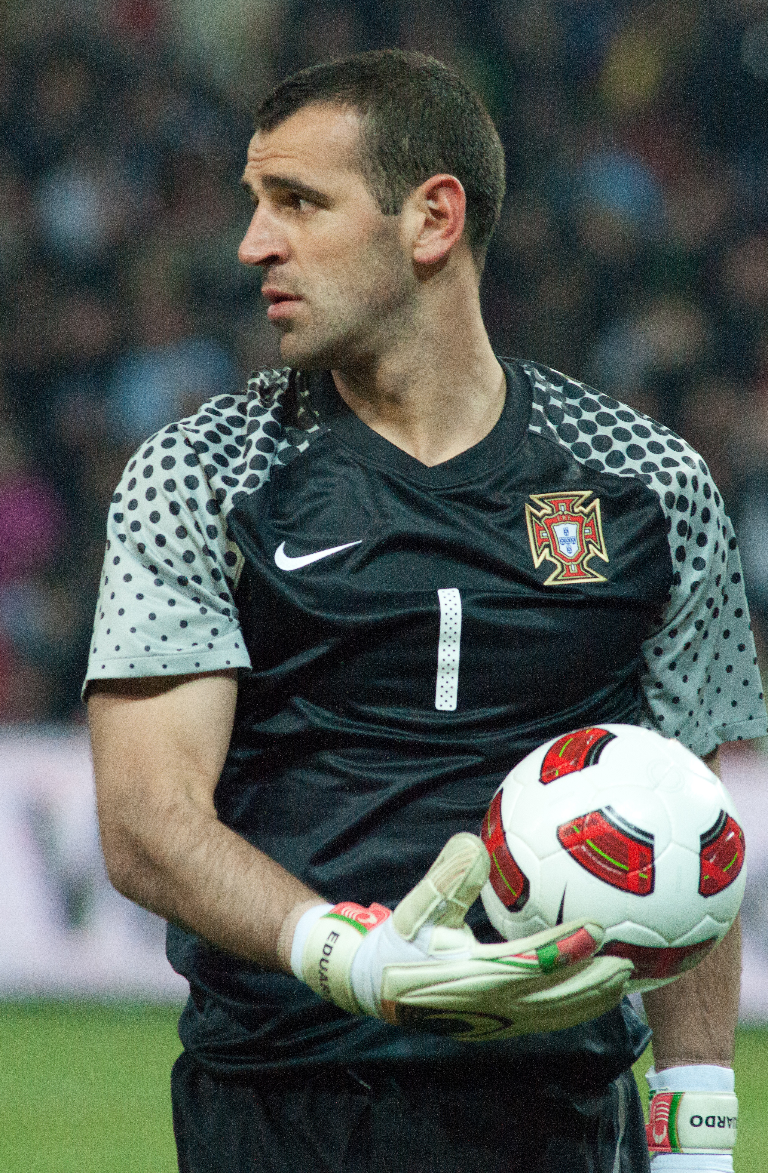 Eduardo dos Reis Carvalho, Portugal - Argentina, 9th February 2011.